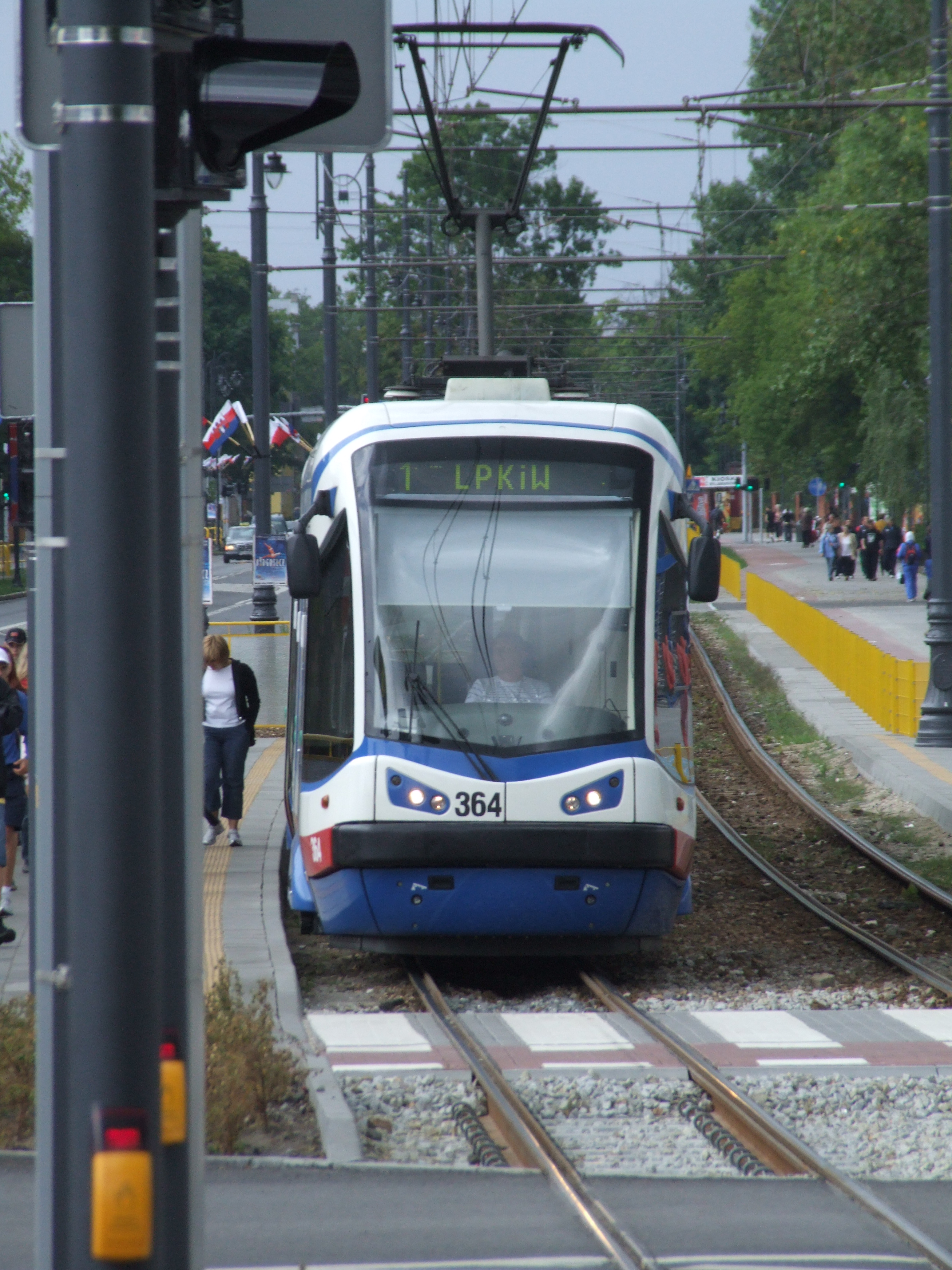 PESA 122N tram (#364) in Bydgoszcz, Poland. Year build 2007. MZK Bydgoszcz company.